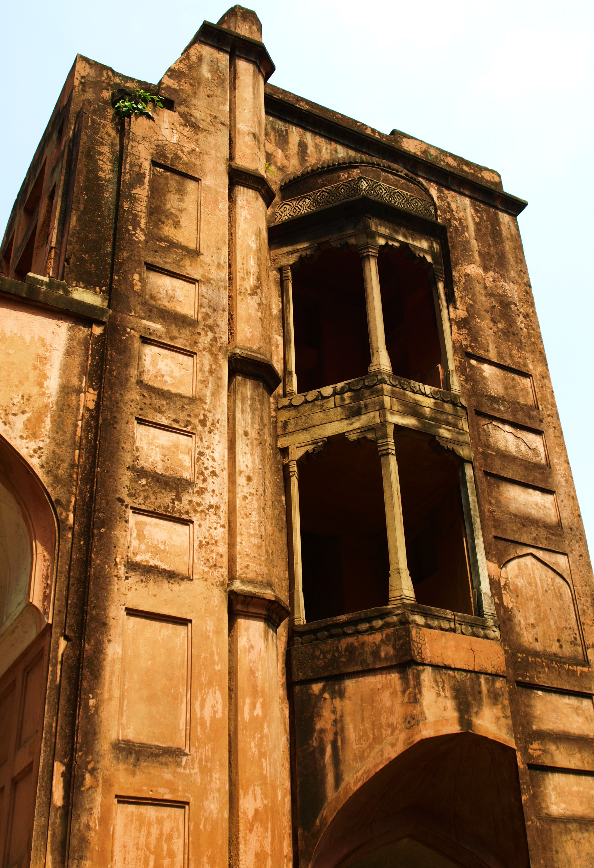 Lalbagh Kella (Lalbagh Fort)